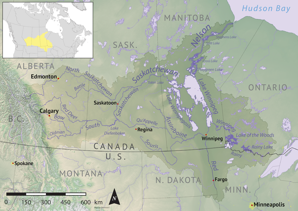 Map of the Nelson River drainage basin. Data derived from NASA SRTM, Statistics Canada, US Geological Survey, Natural Earth, all public domain.